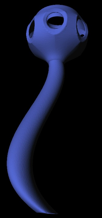 Mathematical model of the Neoproterozoic fossil Namacalathus hermanastes.